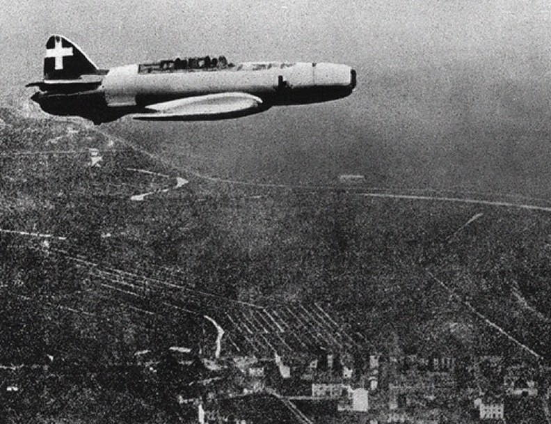 November 30th, 1941 Mario De Bernardi and Giovanni Pedace flies the Campini Caproni CC-2 from Milan-Linate to Rome-Guidonia